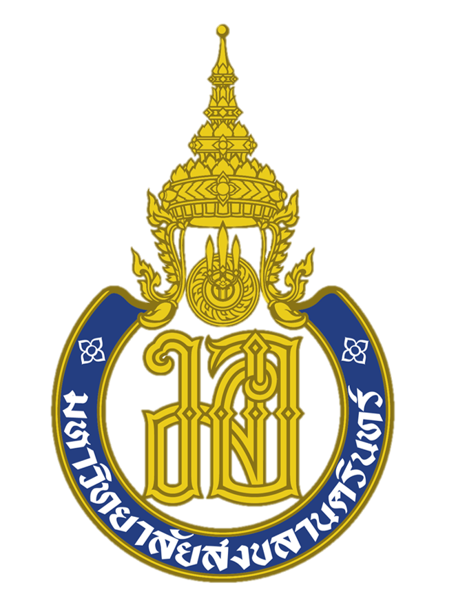 Emblem of Prince of Songkla University. This image is derivative work from the original emblem which is published in the Thai Government Gazette. Hence this is not eligible for copyright. But the usage is governed by other laws other than copyright law.